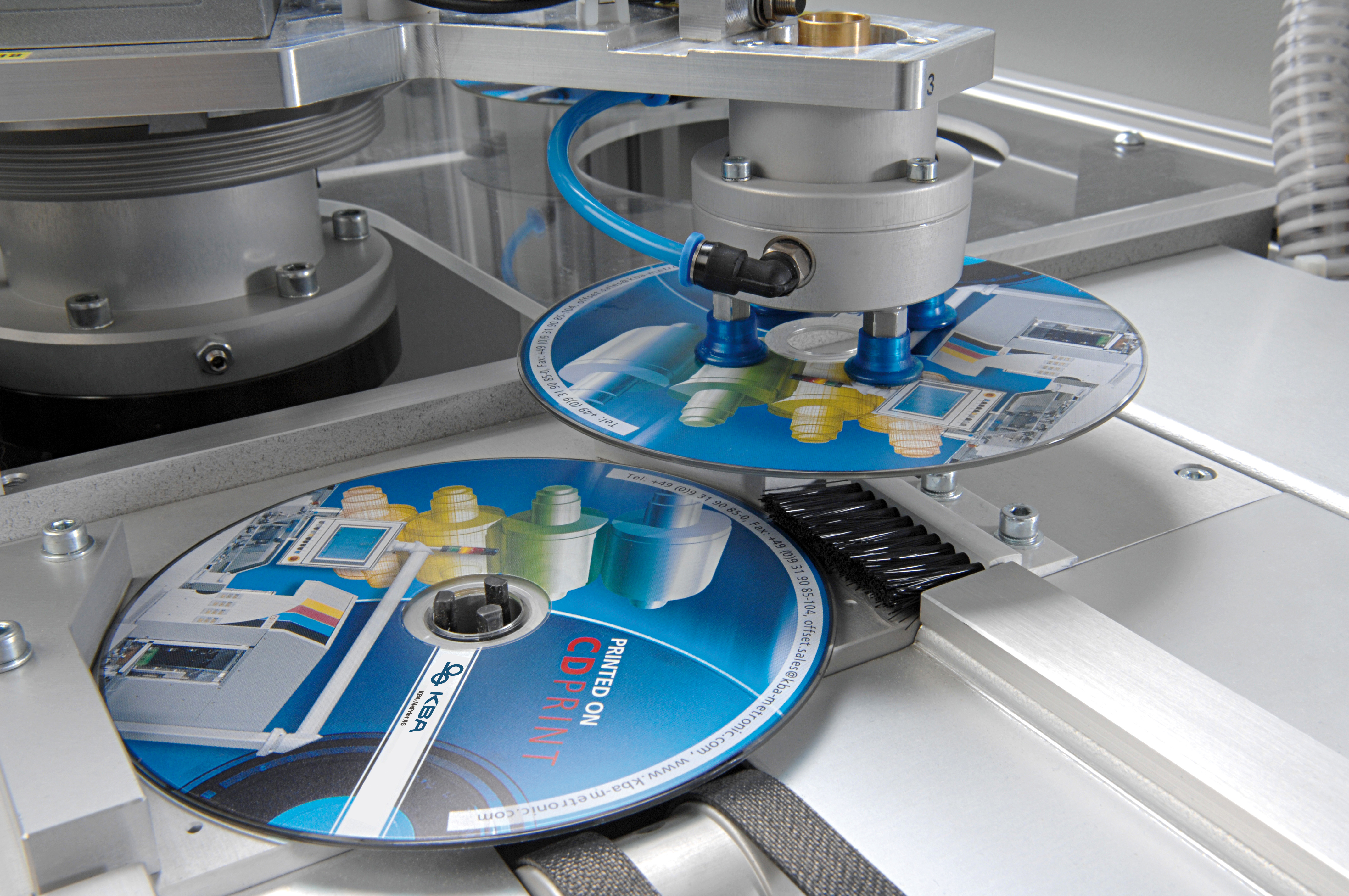 CDs and DVDs are printed typically in waterless offset